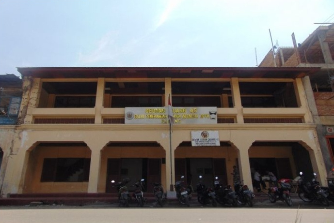 Gedung BPPI Padang